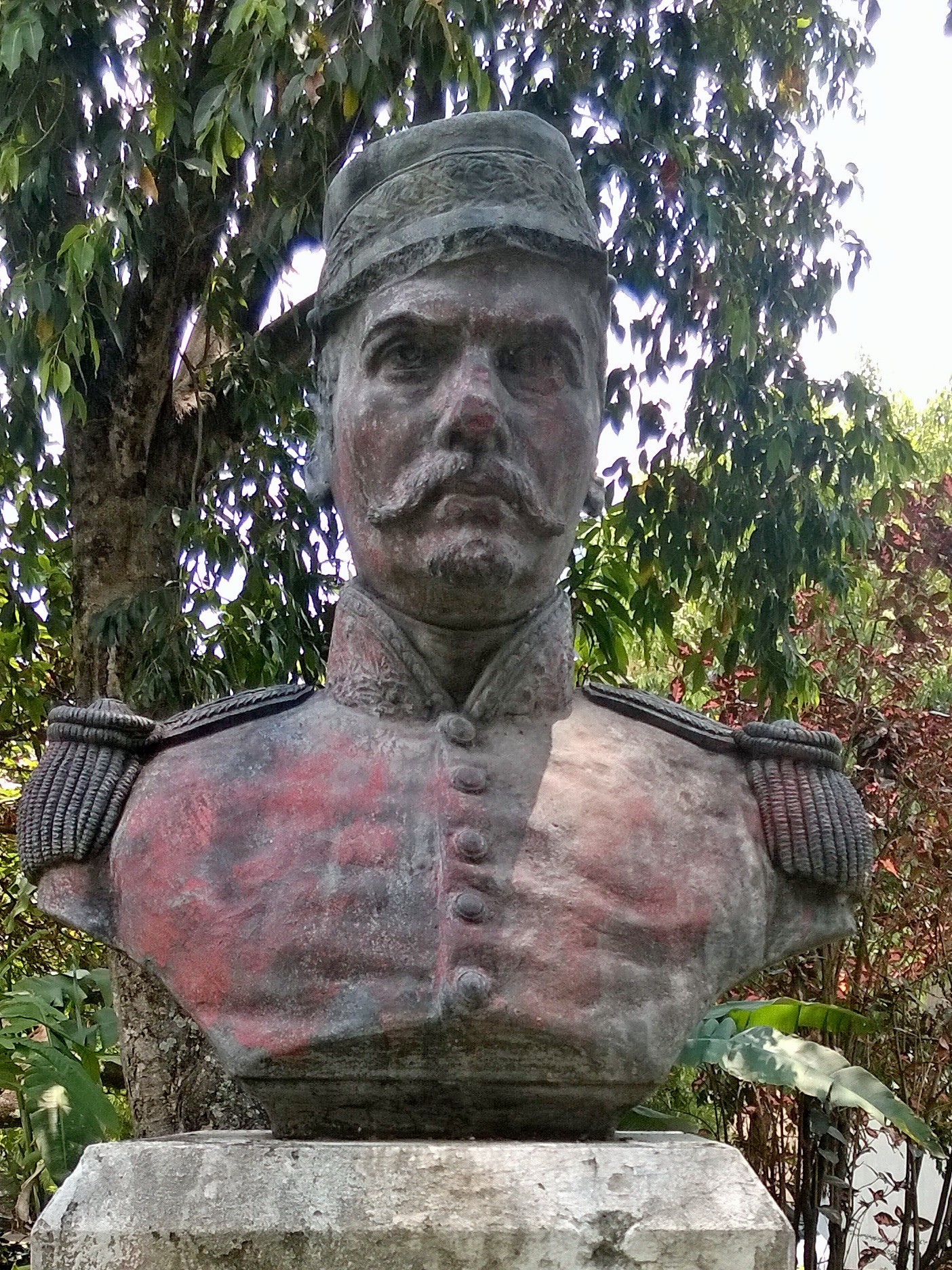 Sculpture of Francisco Malespín, President of the Republic of El Salvador (1844, 1845), in the University of El Salvador.